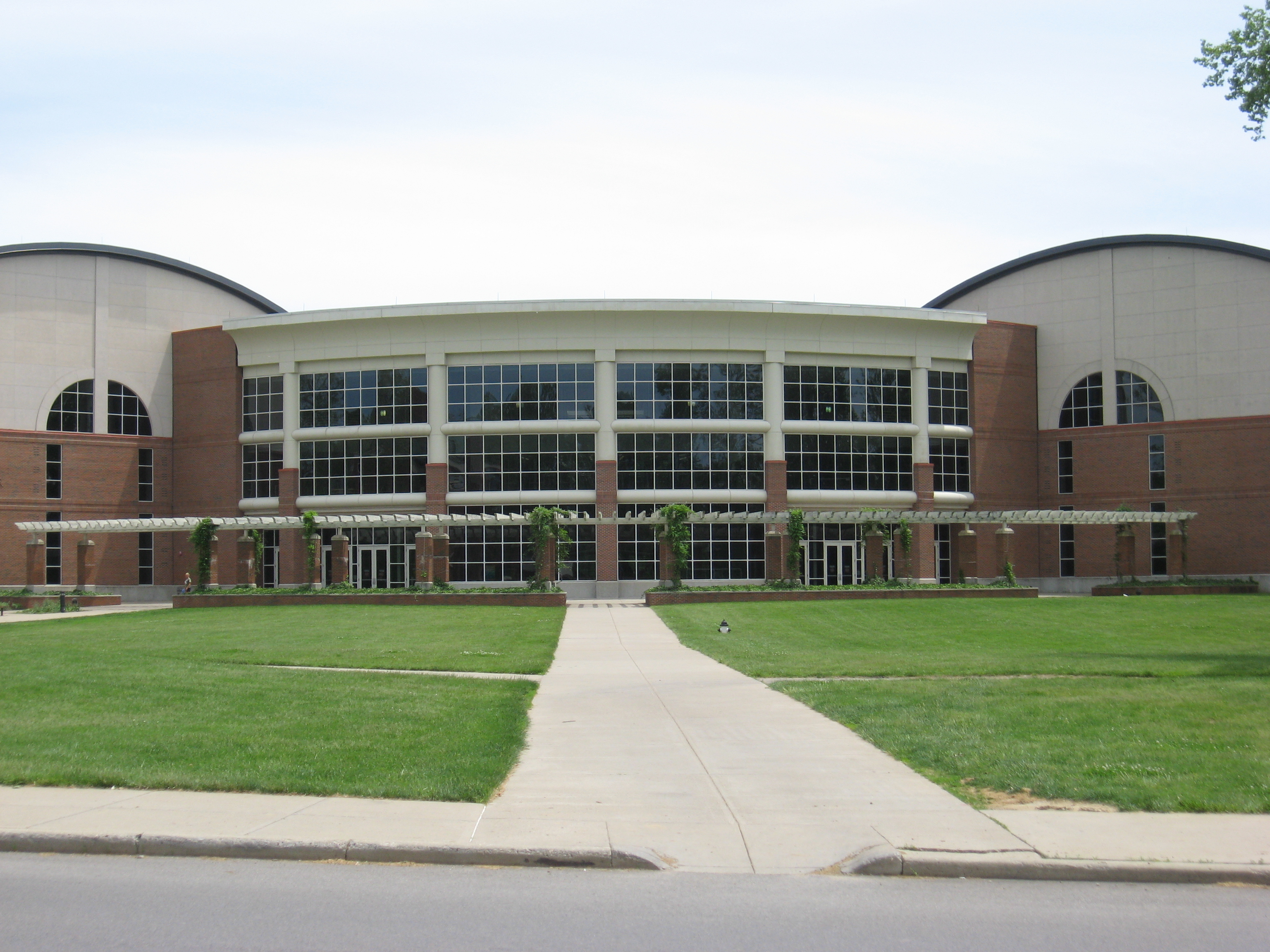 Charles J. Ping Recreation Center at Ohio University (Athens, Ohio, USA)